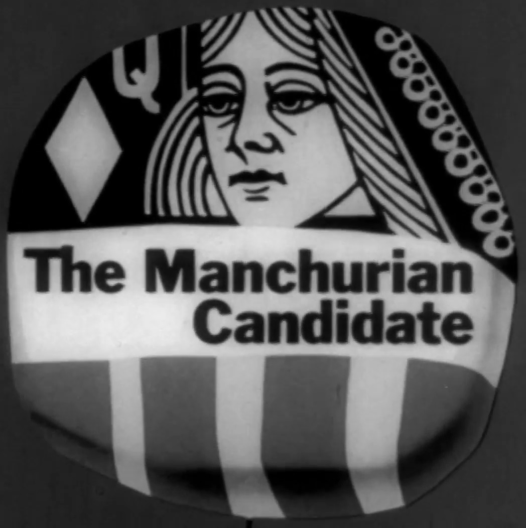 Logo of the film "The Manchurian Candidate" (1962) taken from the trailer.